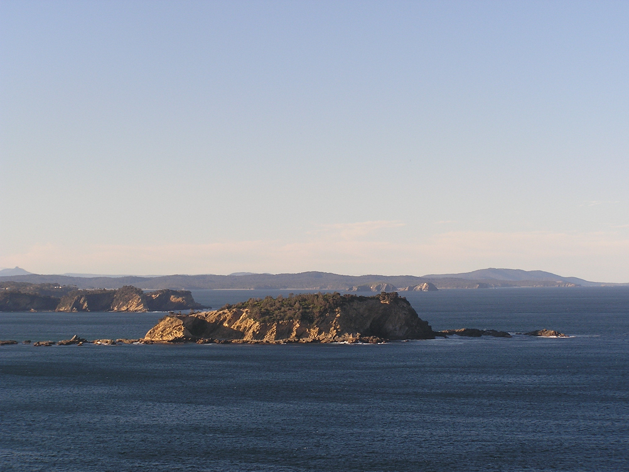 Jimmy's Island offshore from Rosedale, New South Wales, Australia, taken from Burrewurra Point, October 2005 Picture taken by AYArktos